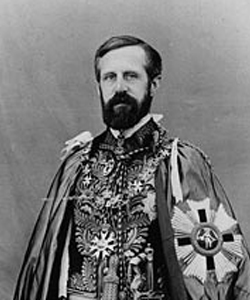 John Hamilton Gordon, Earl of Aberdeen 1884 in the robes of a Grand Commander of Saint Michael and Saint George